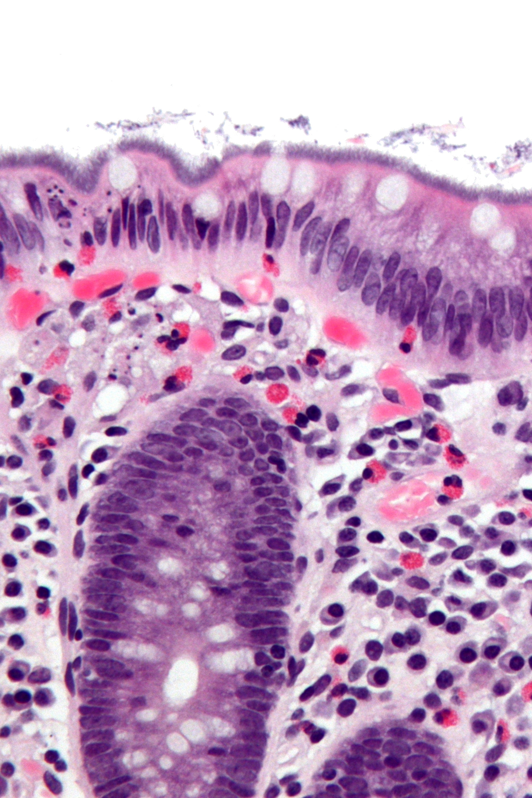 Very high magnification micrograph of intestinal spirochetosis, also intestinal spirochetes, (more specifically) colonic spirochetosis, colonic spirochetes, rectal spirochetosis, rectal spirochetes. H&E stain. There is a hyperchromatic fuzz on the luminal aspect of the epithelial cells - at the brush border. This is a subtle finding that may be missed, especially at low power. Related images Low mag. Intermed. mag. High mag. Very high mag. Very high mag.